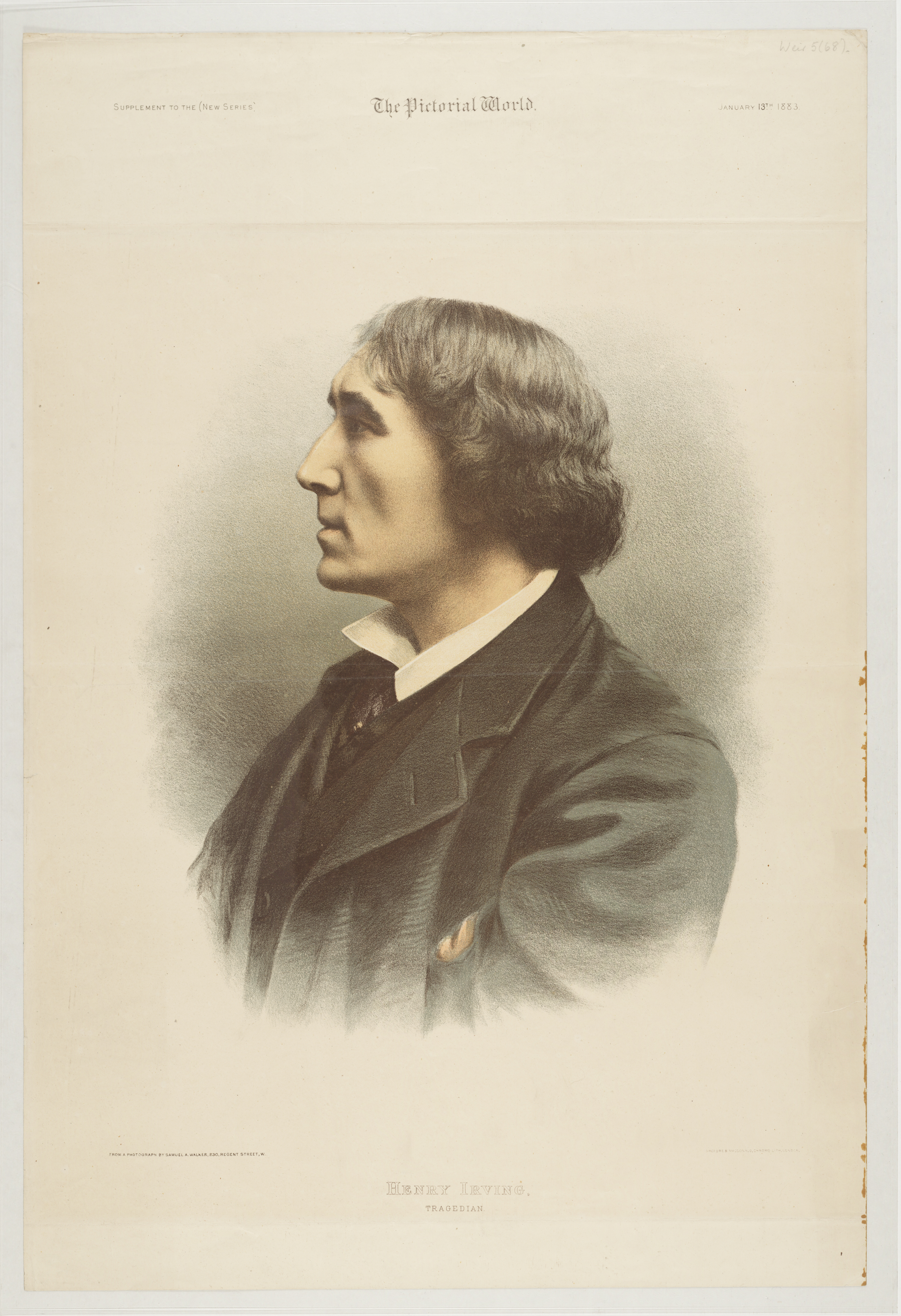 Supplement to the (New Series). The Pictorial World. January 13th 1883. From a photograph by Samuel A. Walker, 230, Regent Street, W. Printed by Maclure & Macdonald, Chromo Lithographer, London.